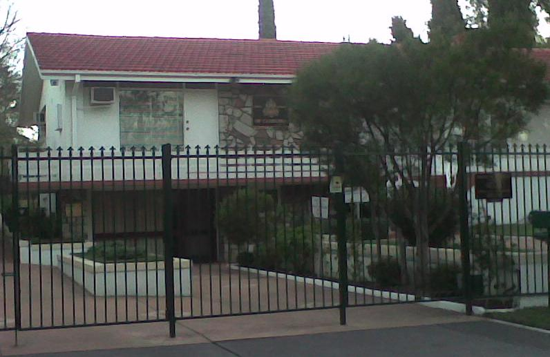 Cambodian Embassy in Canberra